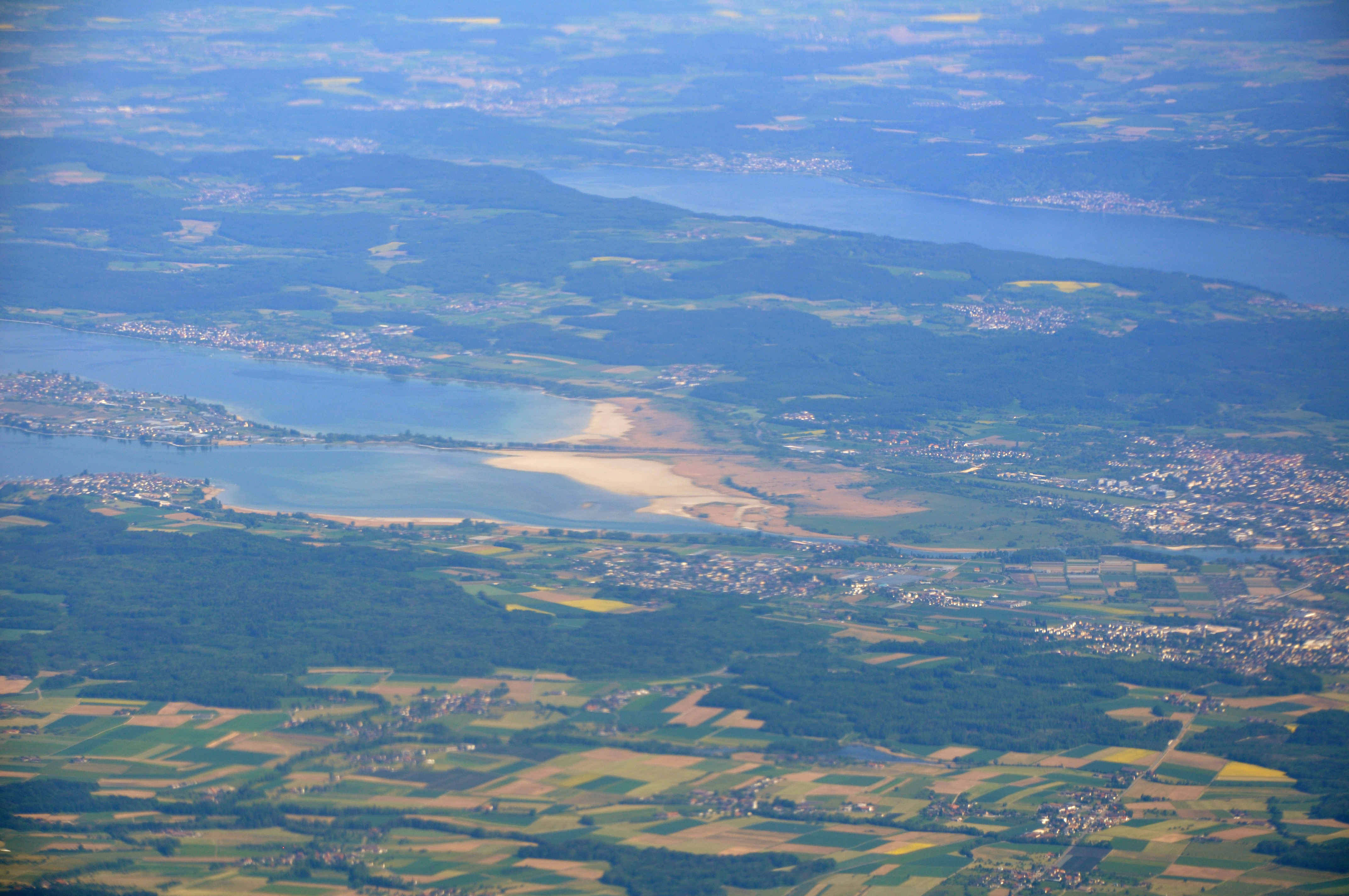 Switzerland, Canton of St. Gallen, aerial view overhead Mutwil